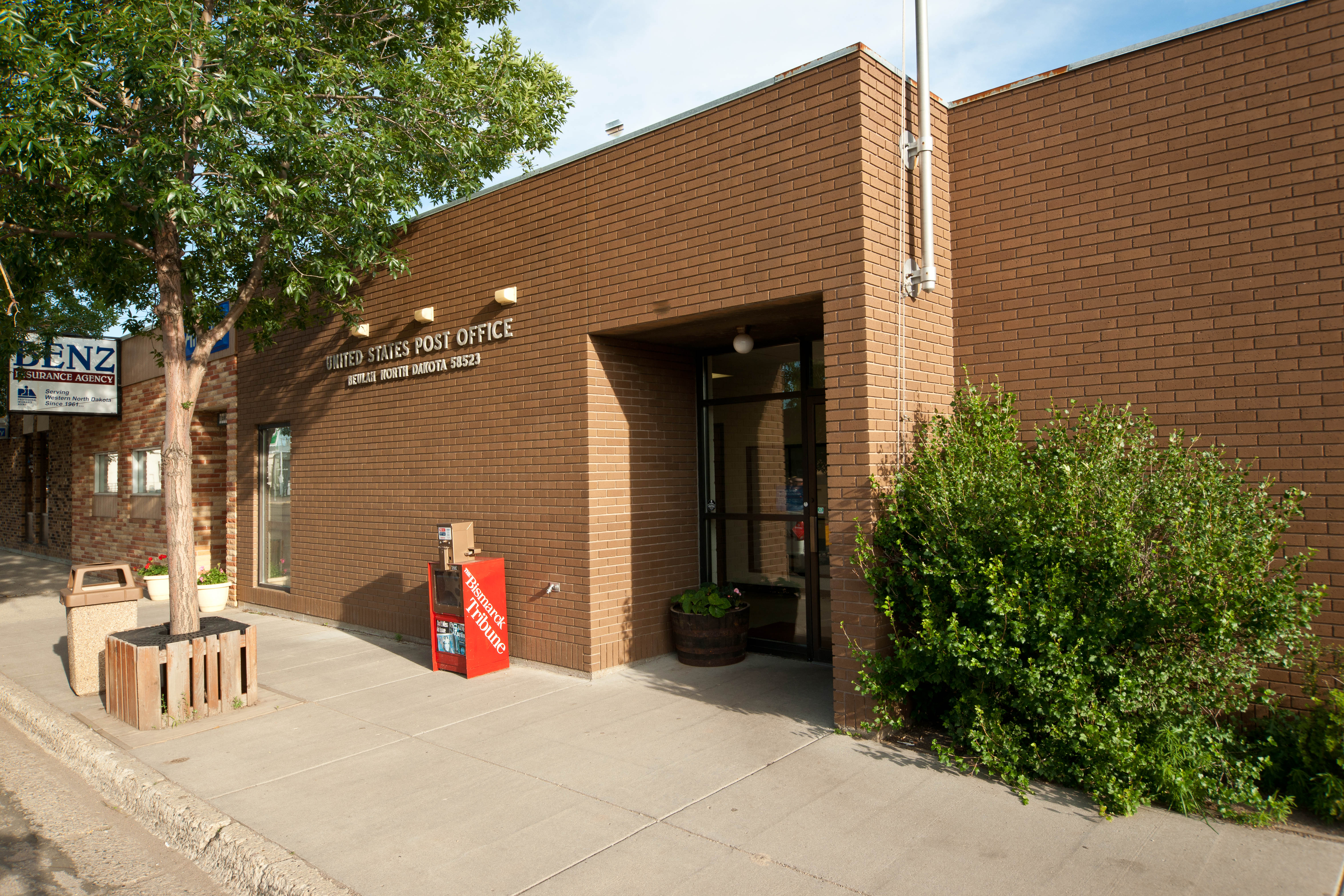 From